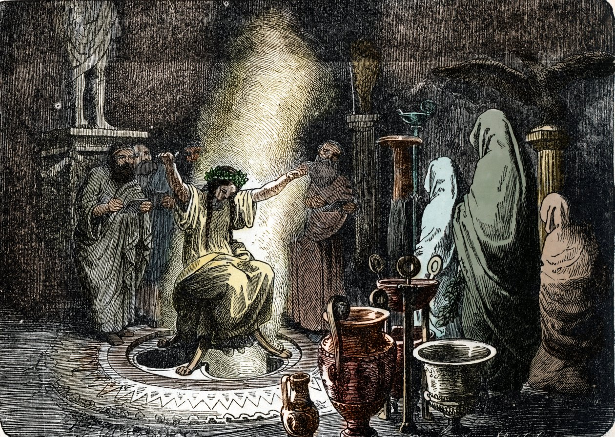 Heinrich Leutemann's The Oracle of Delphi Entranced.label QS:Len,"Heinrich Leutemann's The Oracle of Delphi Entranced." label QS:Lfr,"L'Oracle de Delphes en transe, par Heinrich Leutemann."